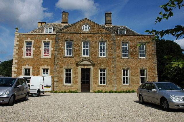 Whichford House, Church End, Whichford, Warwickshire, seen from the south